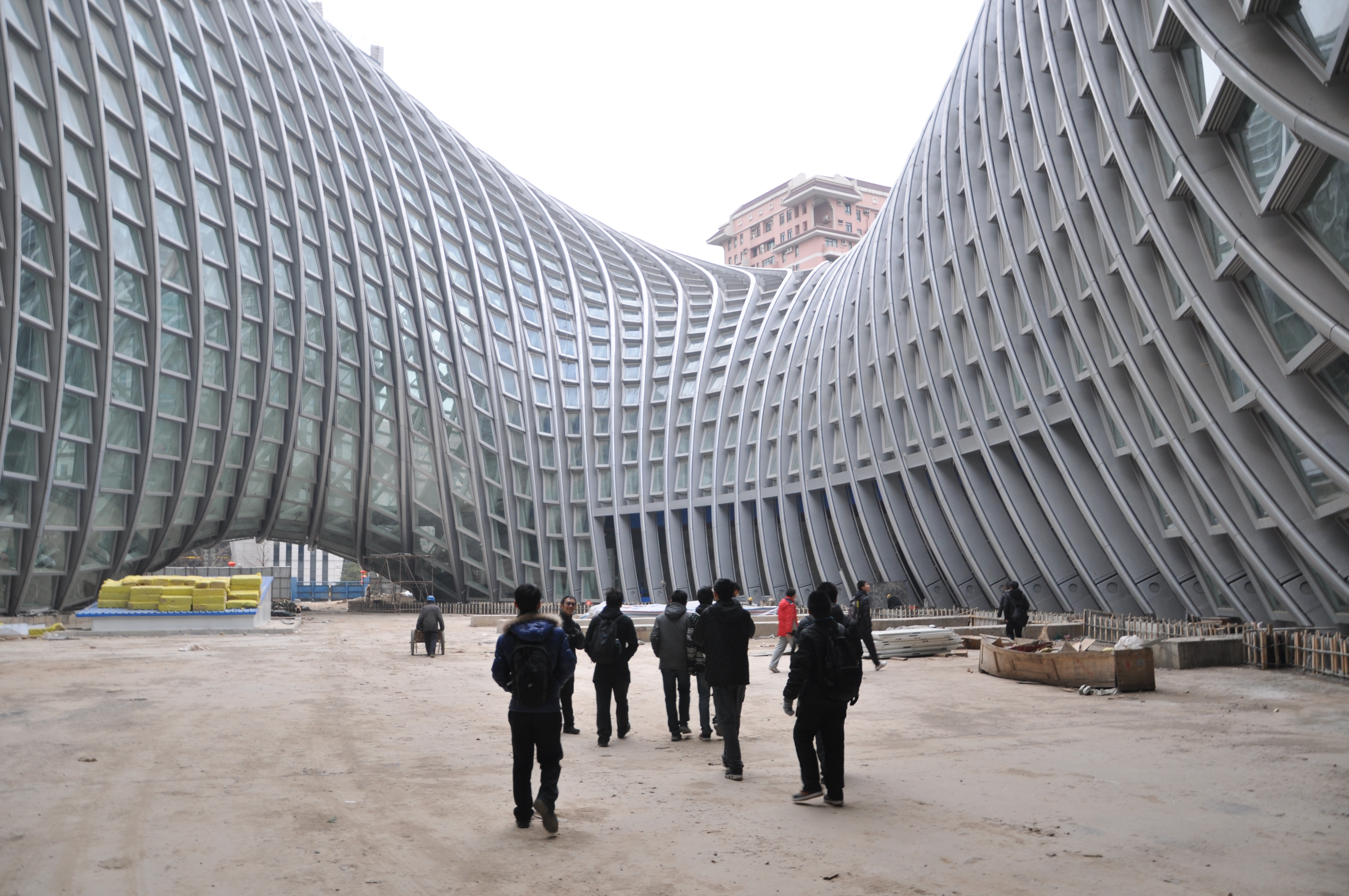 Inside the ring of the ring-shaped building, Phoenix Center, Beijing, China. Photoed December 2011, when the building was still under construction.